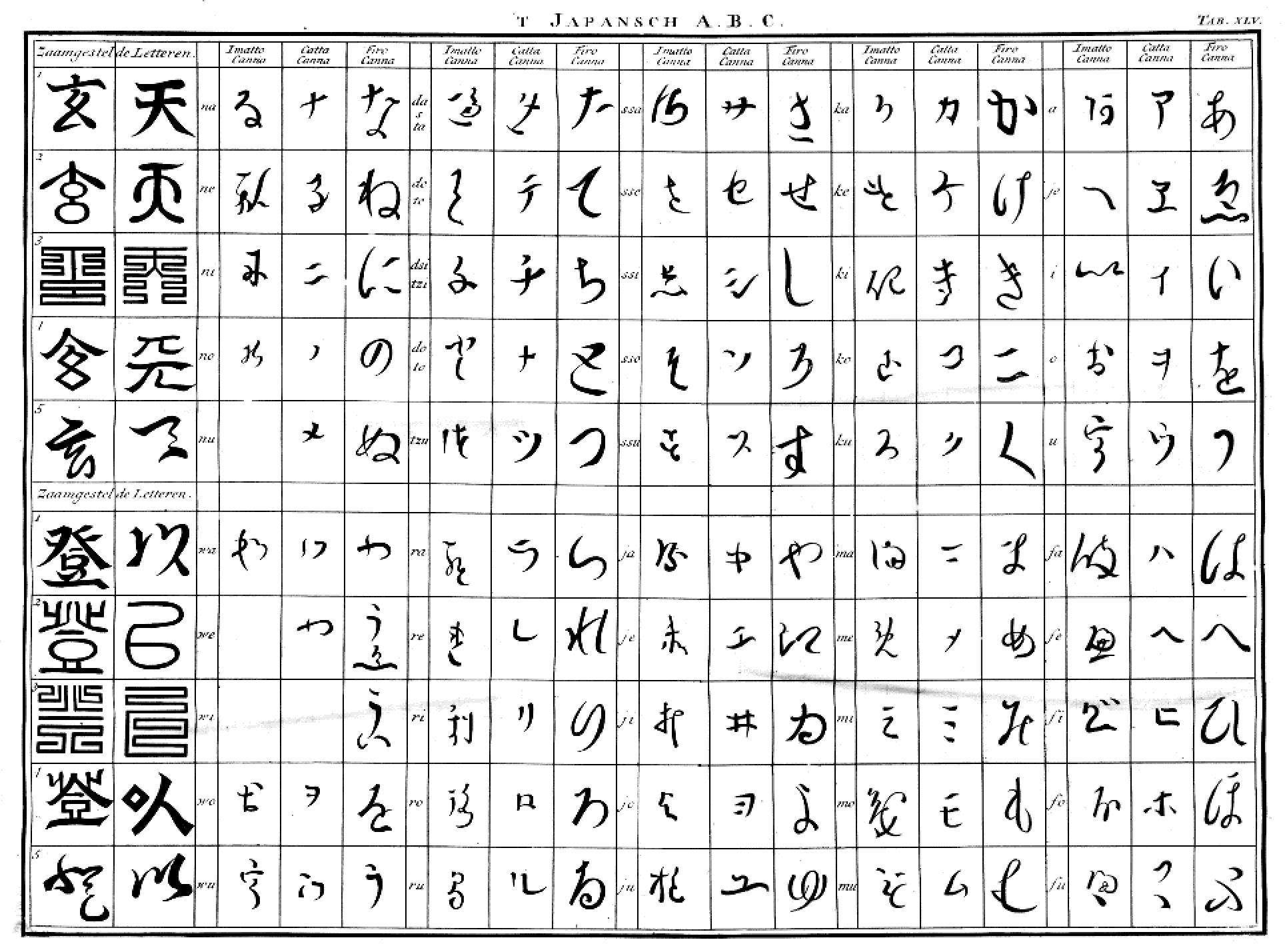 Japanese "alphabet" by Engelbert Kaempfer 1690-1693. Listing firo-canna (modern romanisation: Hiragana) and catta-canna (modern romanisation: Katakana), alongside "imatto-canna" (mostly variant kana, or "Hentaigana", mistaken as a congruent syllabary). Two rows of right-to-left columns, top comes before bottom. Written out using Japanese consonant ordering but Roman vowel ordering. Each column is written in right-to-left columns of Hiragana, then Katakana, then "imatto" kana, and romanisation (which differs from modern romanisations in places) last (leftmost) of all.